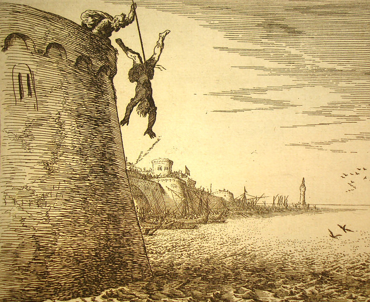 Polymnestor kills Polydorus. Engraving de Bauer for Ovid's Metamorphoses Book XIII, 430-438.